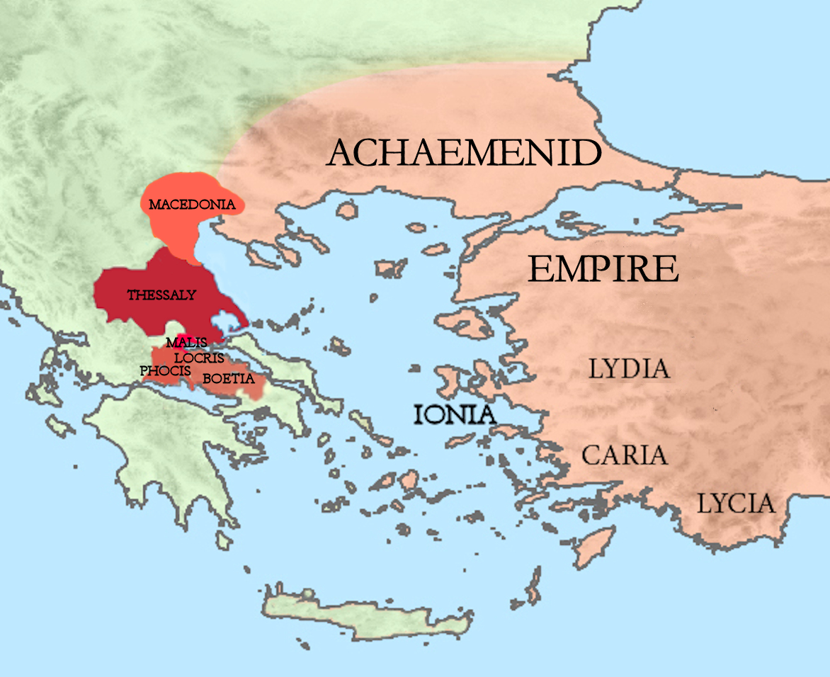 Achaemenid Empire and Greek allies at the Battle of Plataea 479 BCE